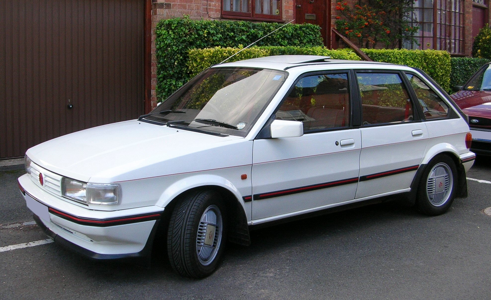 A 1986 MG Maestro EFi. This car had a 115bhp 2.0-litre EFi engine.